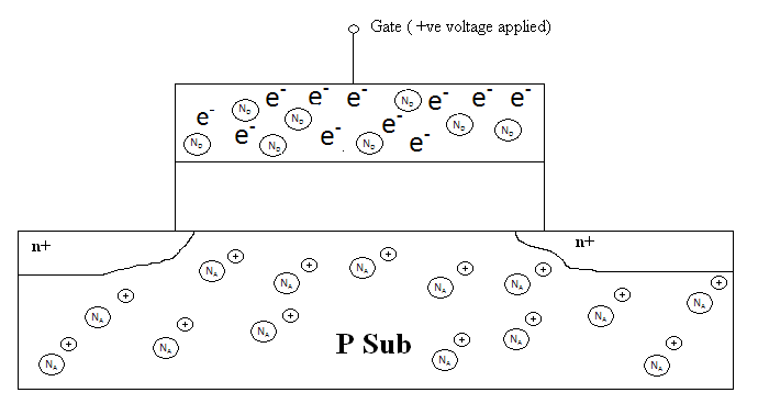 The arrangement of carriers in a doped poly